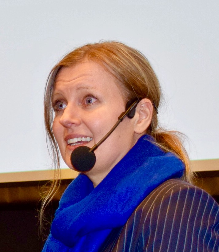 Norwegian psycologist Lene Berggraf